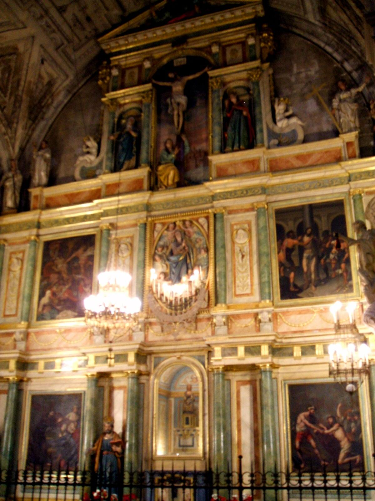 Retablo neoclásico (s-XVIII) de la Capilla Mayor de la Catedral de Jaén (Andalucía, España)